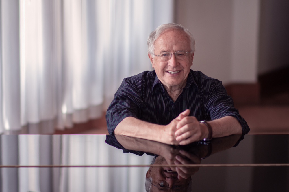 Dieter Kurz behind a piano